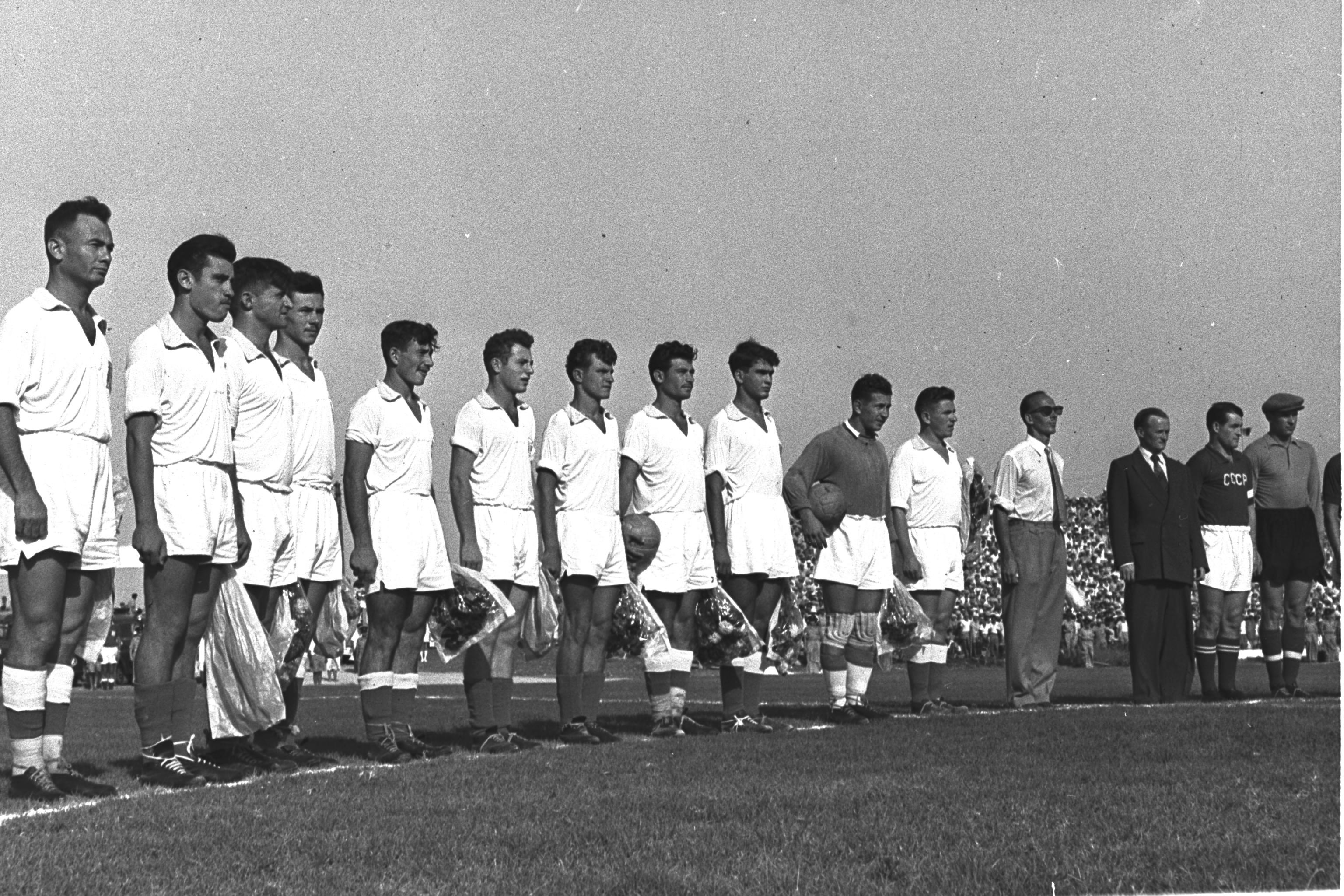 Original Description: THE ISRAELI NATIONAL SOCCER TEAM, BEFORE THEIR MATCH AGAINST RUSSIA, HELD AT THE RAMAT GAN STADIUM.